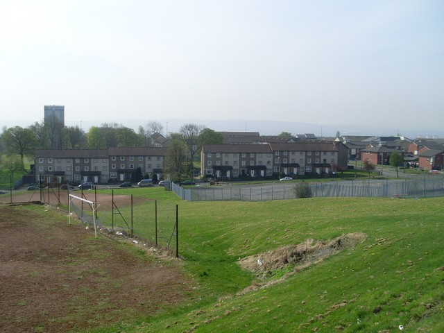 Across Ruchazie from Gartloch Road